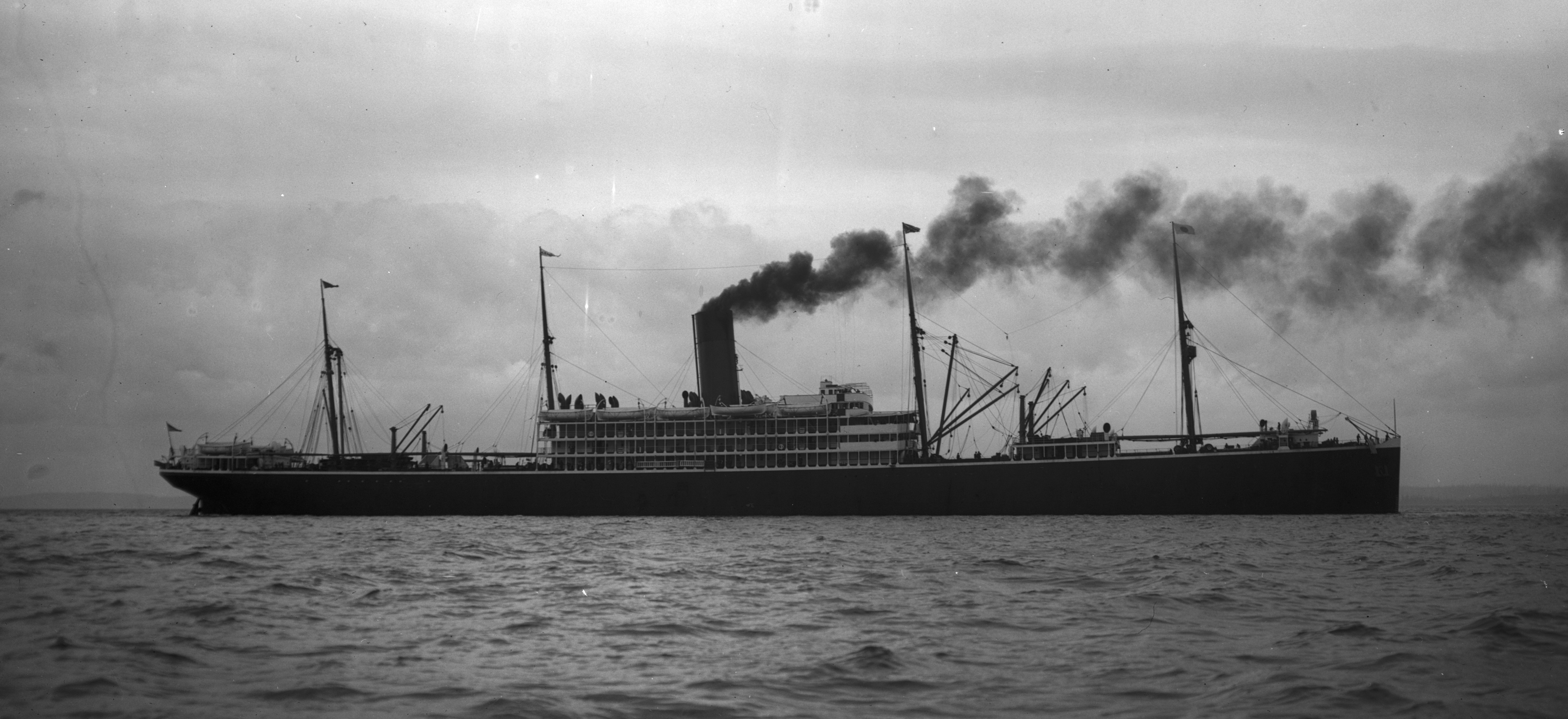 A broadside photo of the steam ship Dakota, added to illustrate the SS Dakota page on Wikipedia. The image has been rotated and cropped. Other information, from the Library of Congress page TITLE: [S.S. Dakota, broadside] CALL NUMBER: LC-D4-22196 [P&P] REPRODUCTION NUMBER: LC-D4-22196 (b&w glass transparency) MEDIUM: 1 transparency : glass ; 8 x 10 in. CREATED/PUBLISHED: [between 1900 and 1910] RELATED NAMES: Detroit Publishing Co., publisher. NOTES:Title from jacket. Detroit Publishing Co. no. 022196. Gift; State Historical Society of Colorado; 1949. SUBJECTS:Dakota (Steamship), Ships. FORMAT:Silver gelatin glass transparencies. PART OF: Detroit Publishing Company Photograph Collection REPOSITORY: Library of Congress Prints and Photographs Division Washington, D.C. 20540 USA DIGITAL ID: (digital file from intermediary roll film) det 4a30666 CONTROL #: det1994002679/PP